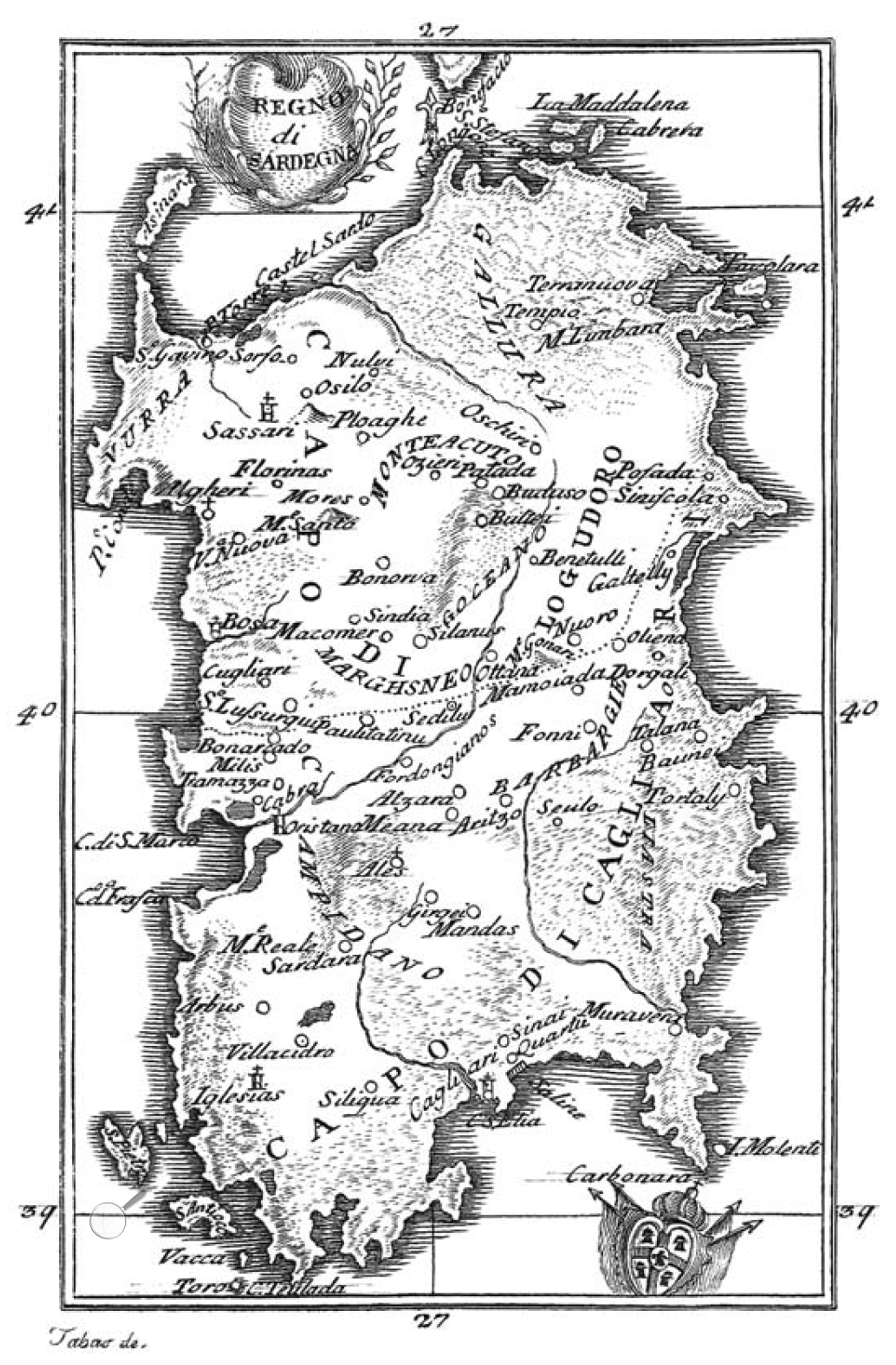 Map of Sardinia